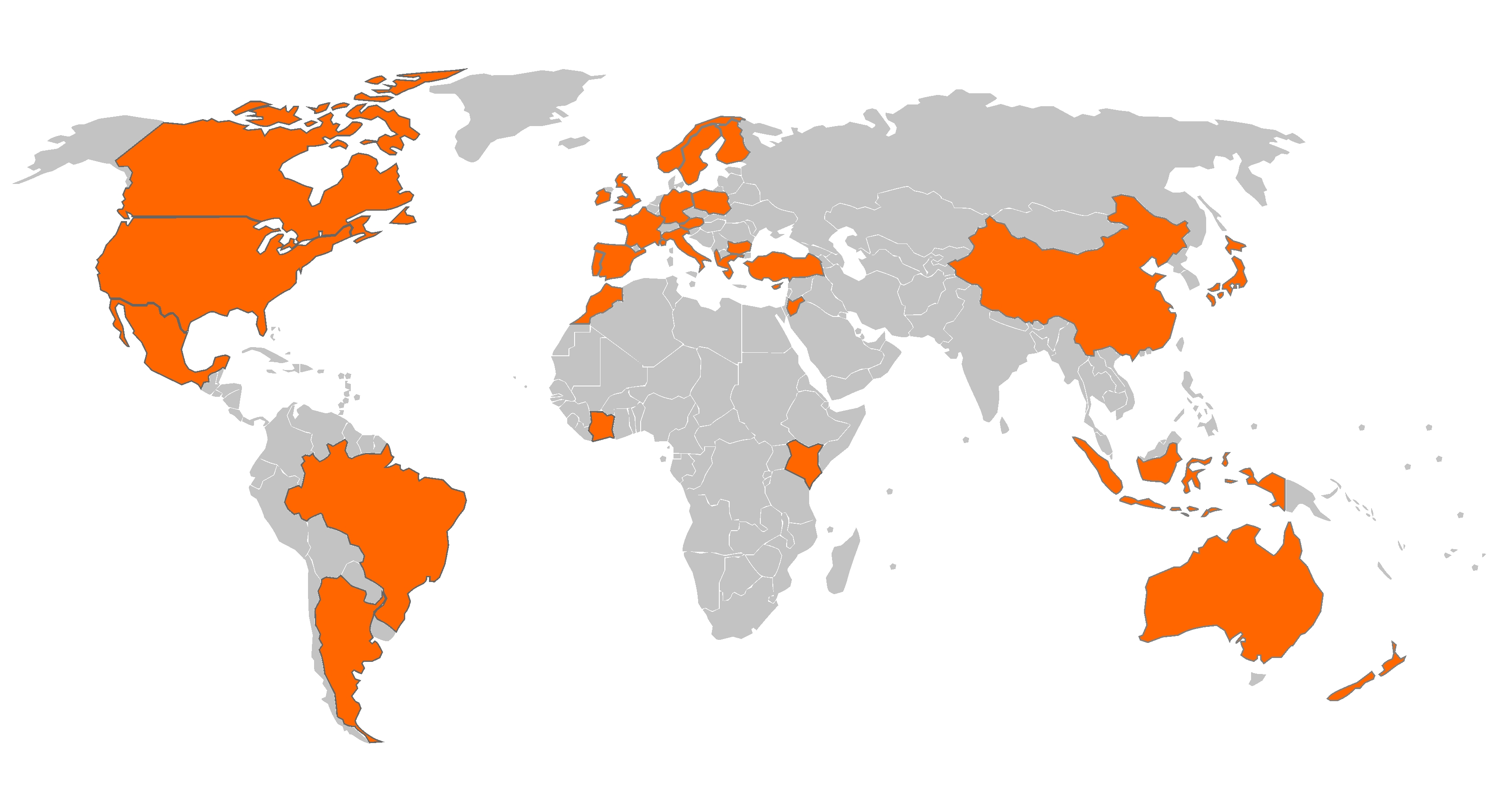 In orange, countries that hosted a WRC rally. Canada, USA, Mexico, Brazil, Argentina, Norway, Sweden, Finland, Ireland, Great Britain, Portugal, Spain, France, Italy, Monaco, Germany, Austria, Poland, Greece, Bulgaria, Chypre, Turkey, Jordan, Morocco, Kenya, Ivory Coast, China, Japan, Australia, Indonesia, New Zealand.